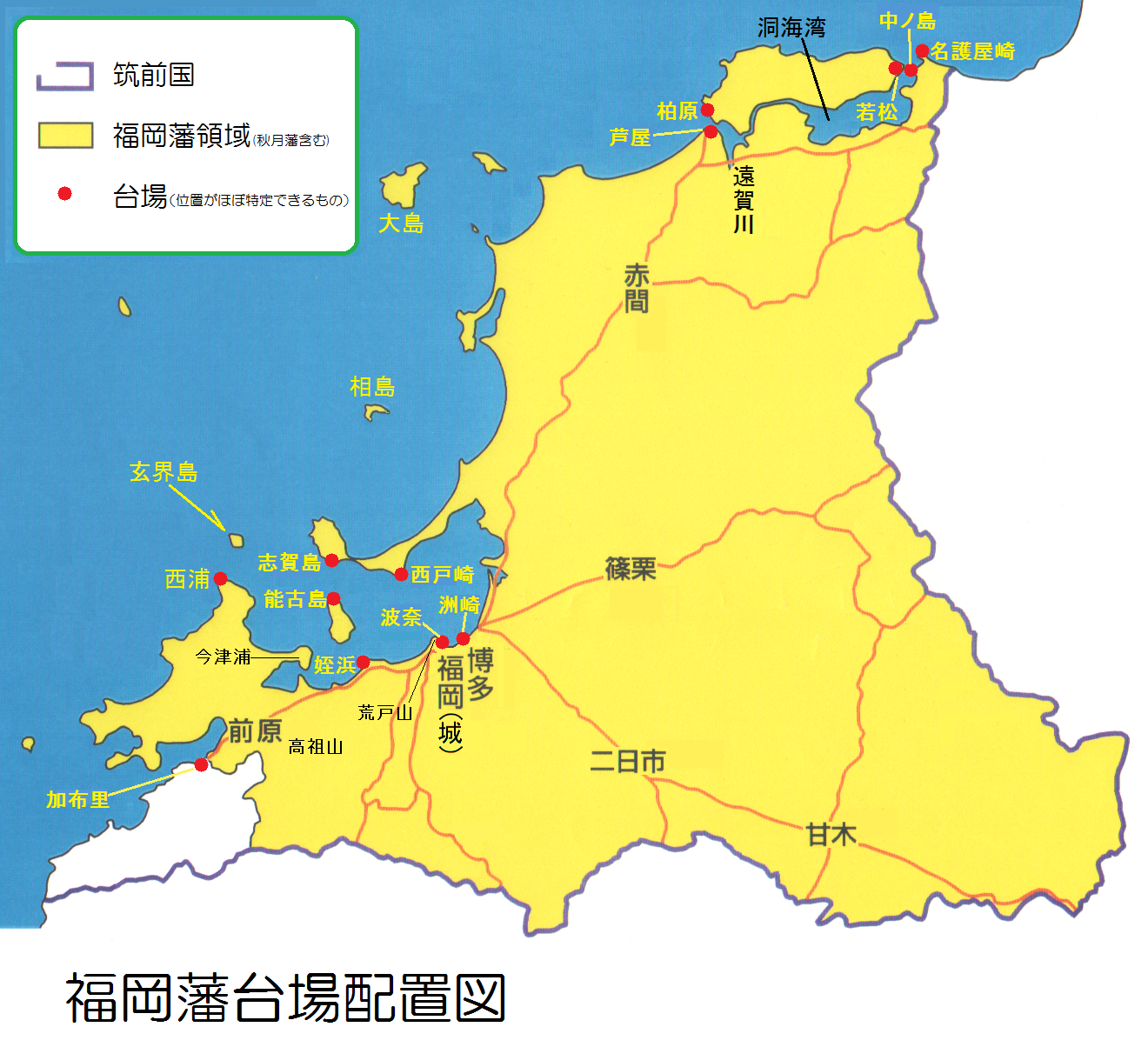 Forts in the Fukuoka-han, Japan, in 1860s